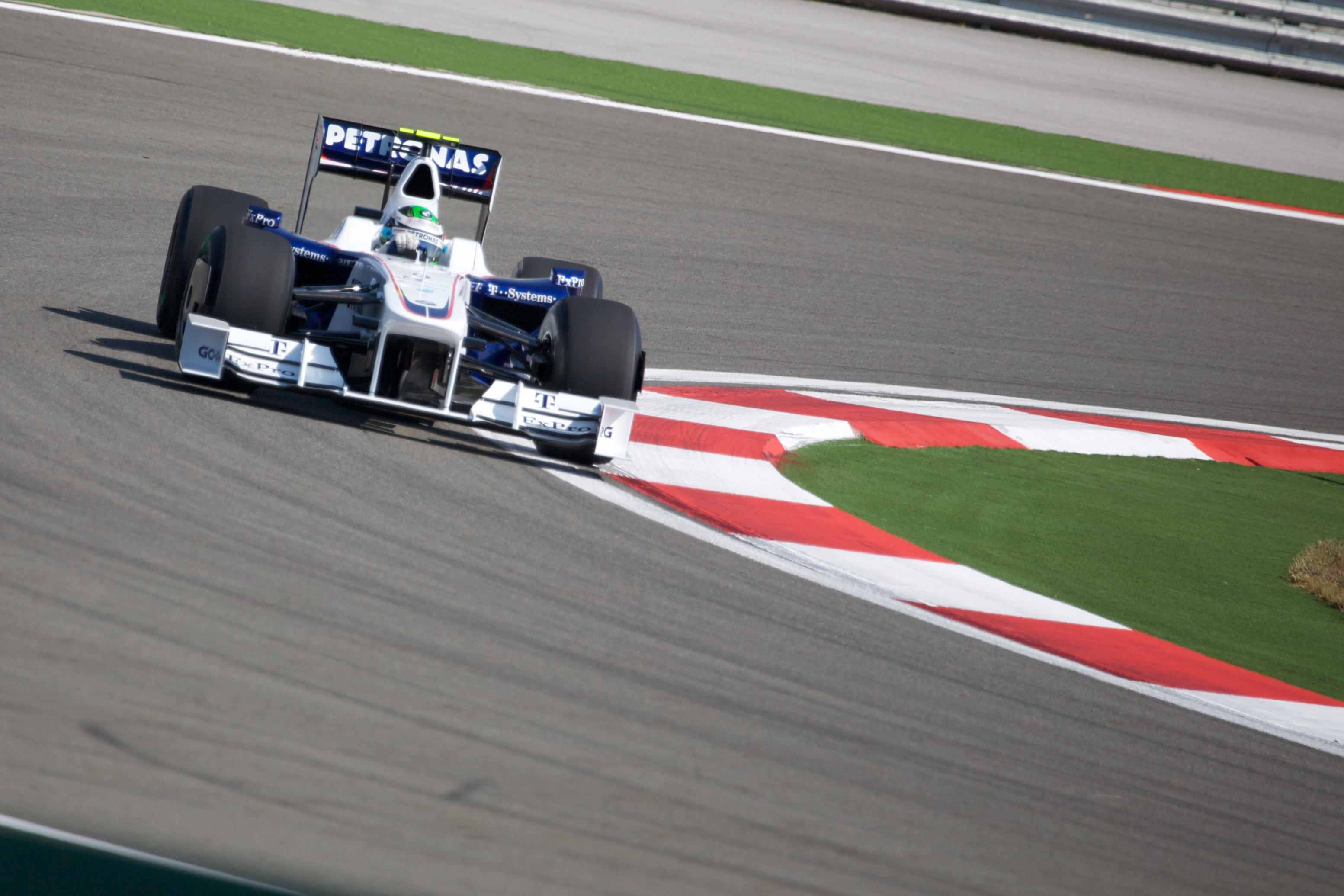 Nick Heidfeld driving for BMW Sauber at the 2009 Turkish Grand Prix.